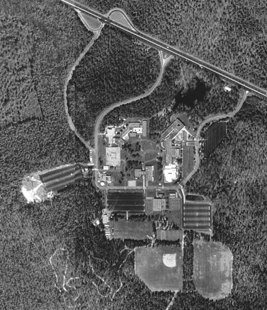 Aerial image of Atlantic Cape Community College in New Jersey.